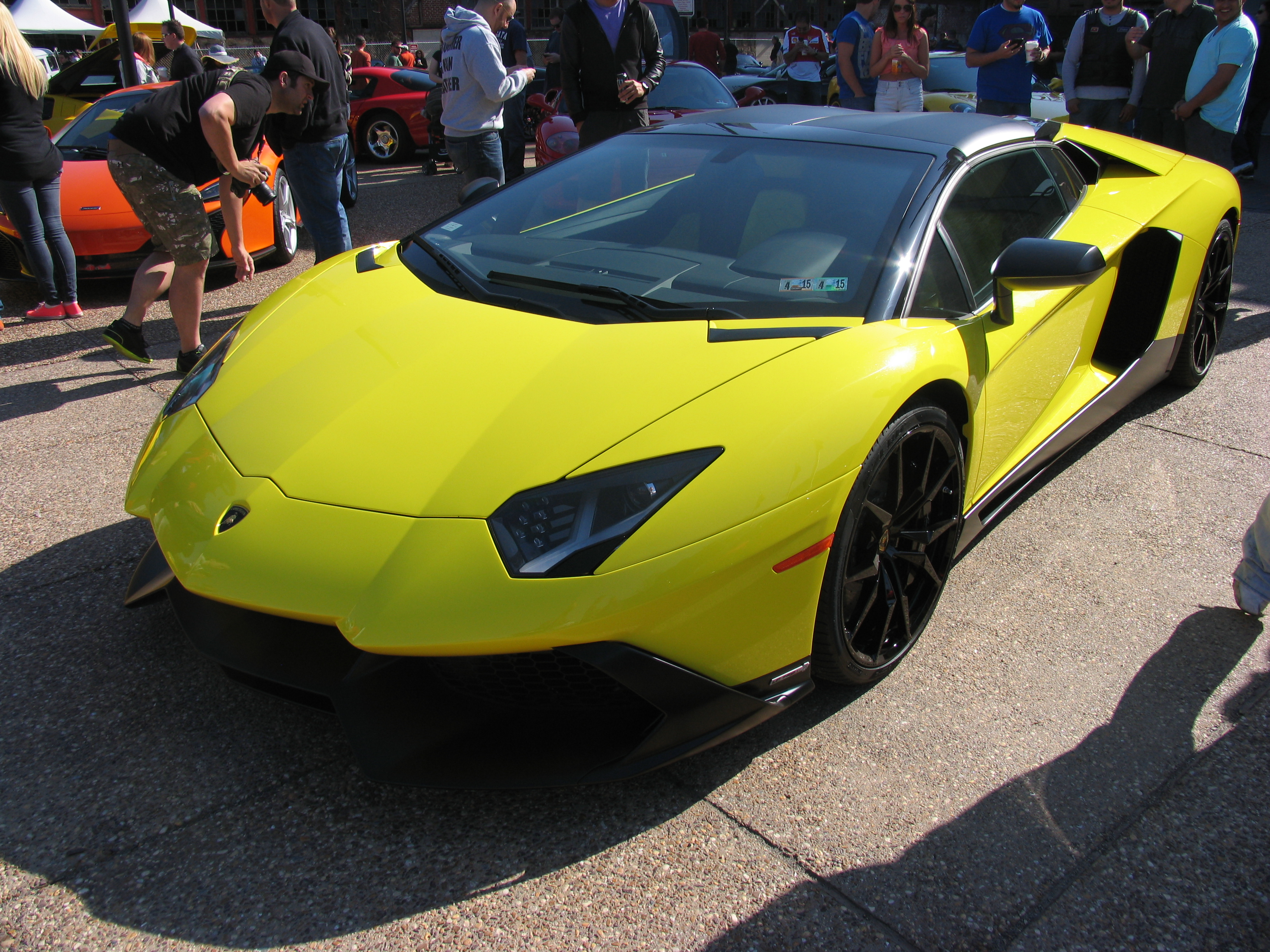 Lamborghini Aventador Roadster 50th Anniversario LP720-4